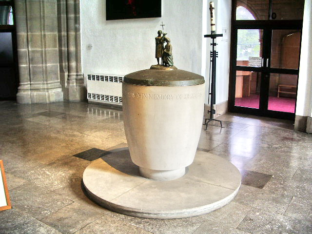 Font, The Cathedral Church of St Mary the Virgin, Blackburn "The font was given by Bishop Charles Claxton and Mrs Claxton in memory of their parents. It is made in the form of an egg cup as a symbol of new life, and on its cover is a sculpture of the Baptism of Jesus. It is through baptism that we become members of the world-wide family of the Christian Church. Baptism leads to Confirmation and so to receiving the Holy Communion" This is taken from the plaque beside the font.